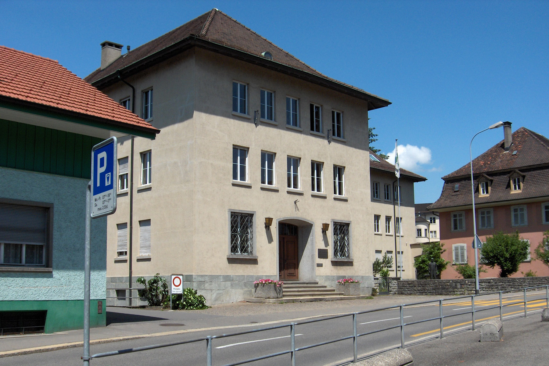 Brugg: "Haus des Schweizerbauern" (Sitz des Schweizerischen Bauernverbandes), rechts Schilplinhaus Fotografiert durch Voyager, 28. Juni 2006 Brugg: "House of the Swiss farmer" (headquarters of the Swiss Farmers' Association) with Schilplin House on the right Photo taken by Voyager, 28 June 2006